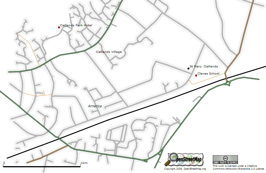 Map of Oatlands village. OpenStreetMap cut-out (or derivative work based on it): without further description This cut-out may be incomplete, and may contain errors, or may be obsolete. Don't rely solely on it for navigation. See the image in the present state and its original context on the OpenStreetMap wiki page for KT13_Weybridge